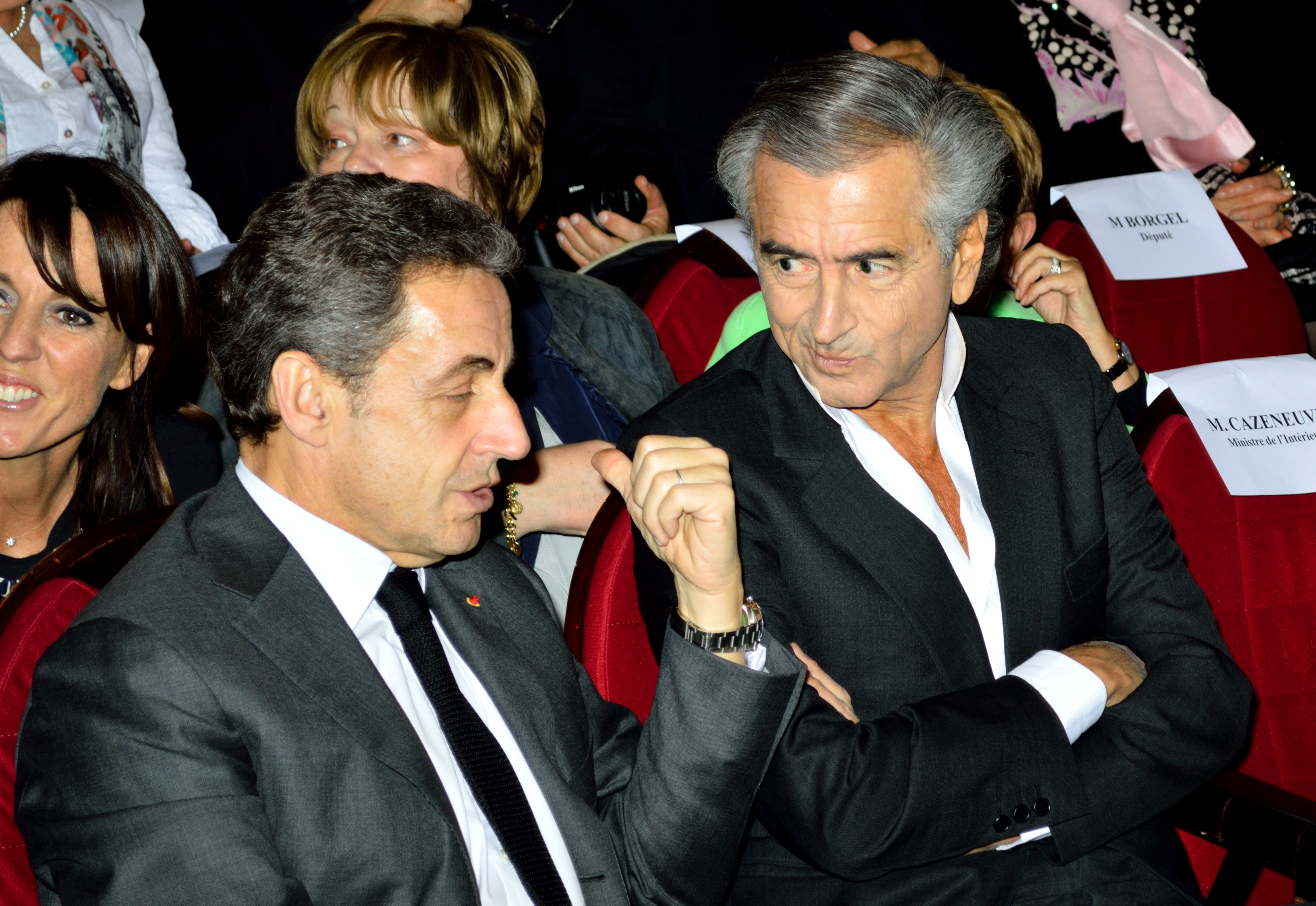 Nicolas Sarkozy and Bernard-Henri Lévy, at the commemoration of the Toulouse and Montauban shootings.